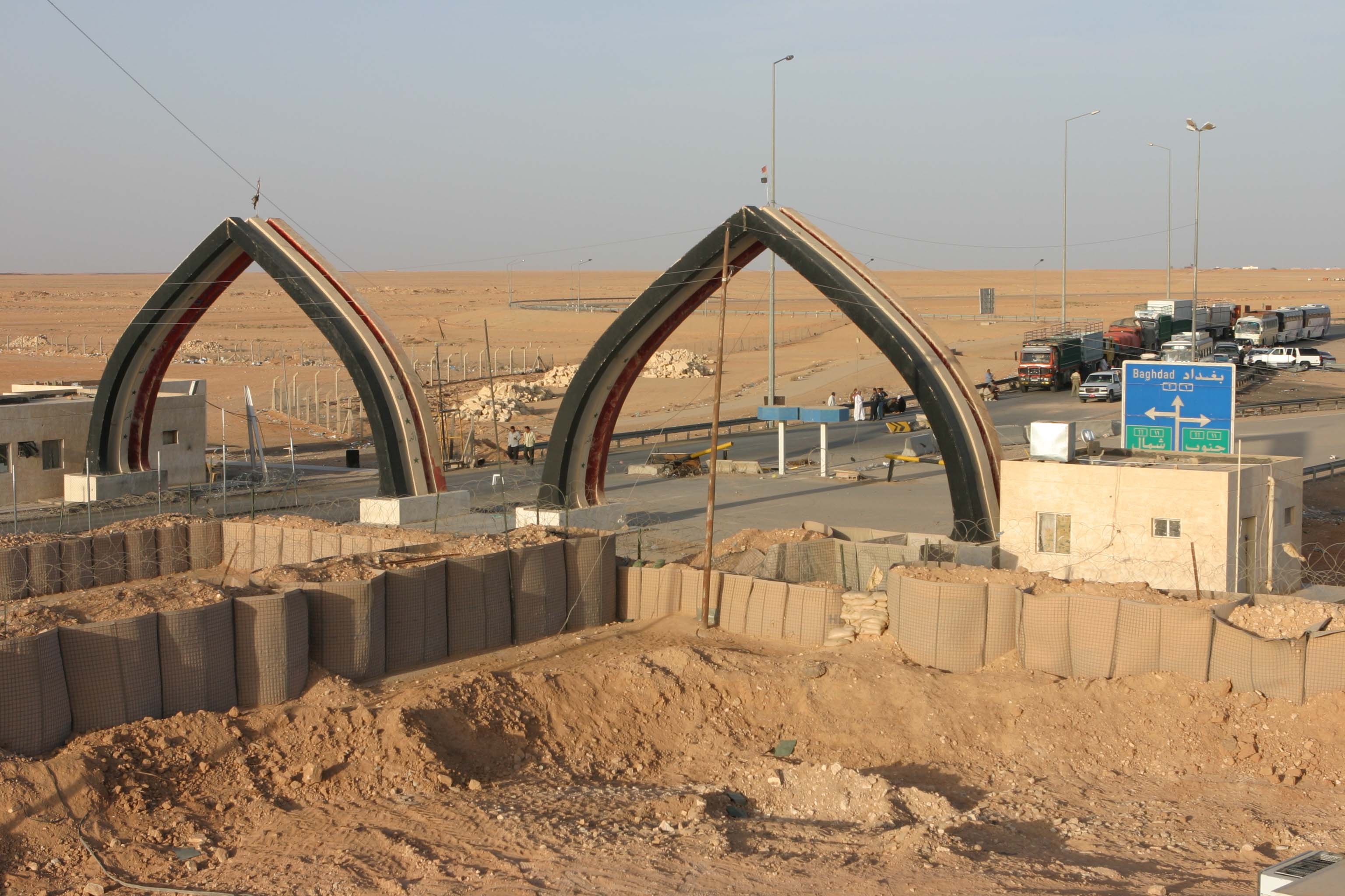 Marines from Kilo Battery, 3rd Battalion, 10th Marines reinforce the Iraqi Border Police at Waleed as they work to ensure insurgents do not cross the Syrian border into Iraq. (Photo by LCpl Zachary W. Lester)